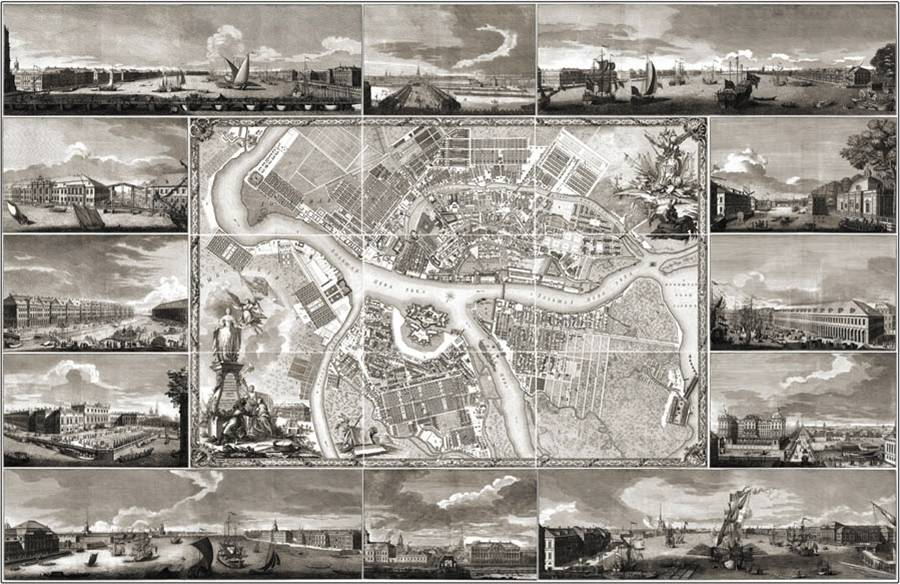 Truscott Map of St-Petersburg 1753 - reconstructed full view (perspective engrawings mounted)